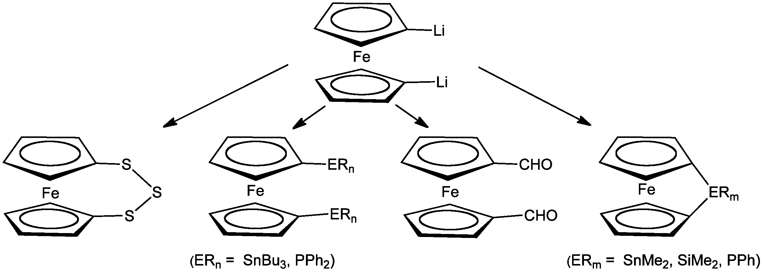 illustrative conversions of dilithioferrocene